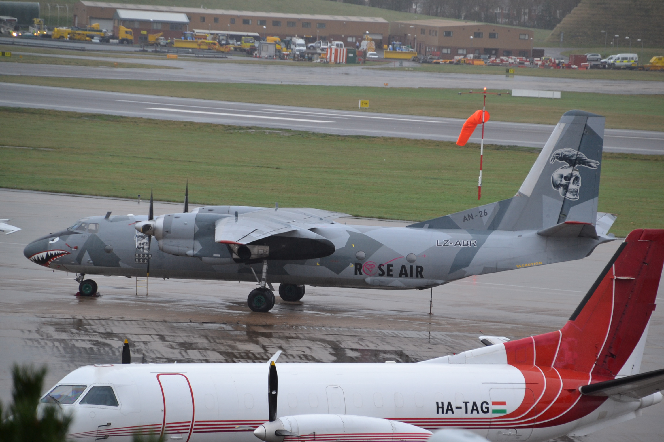 Antonov An.26 of Rose Air,still wearing it's special marks for the film "The Expendables 3" film, at Birmingham-BHX, 17/12/15.